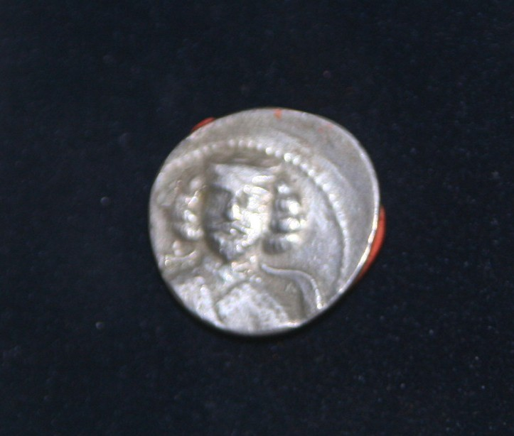 Silver drahma minted under the name of Darius from Atropates dynasty from Kharaba-Gilan